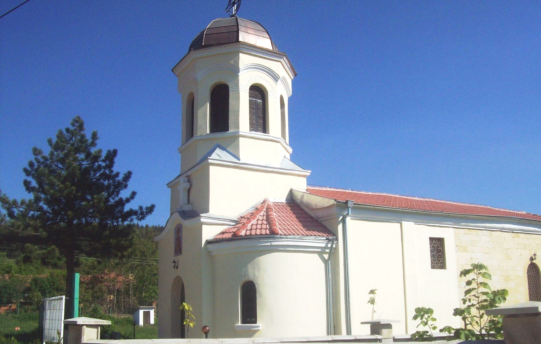 The local church in Krivnya